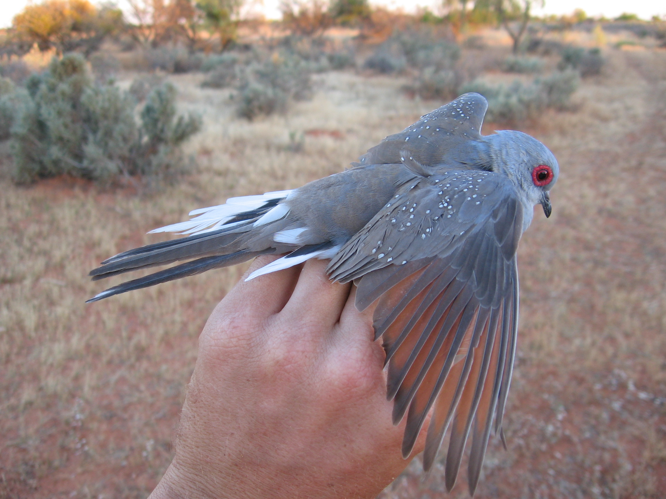 Diamond Dove in hand, Broken Hill, Australia